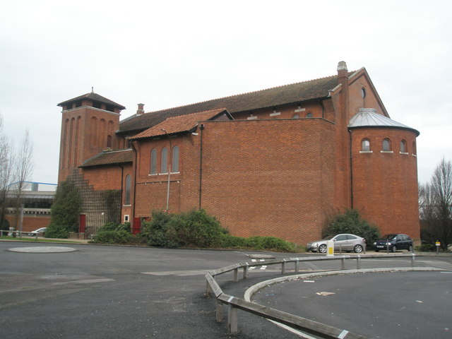 St Agatha's church, Alfred Road, Portsmouth, Hampshire, seen from the southeast. Built as a Church of England parish church, now a Roman Catholic church.